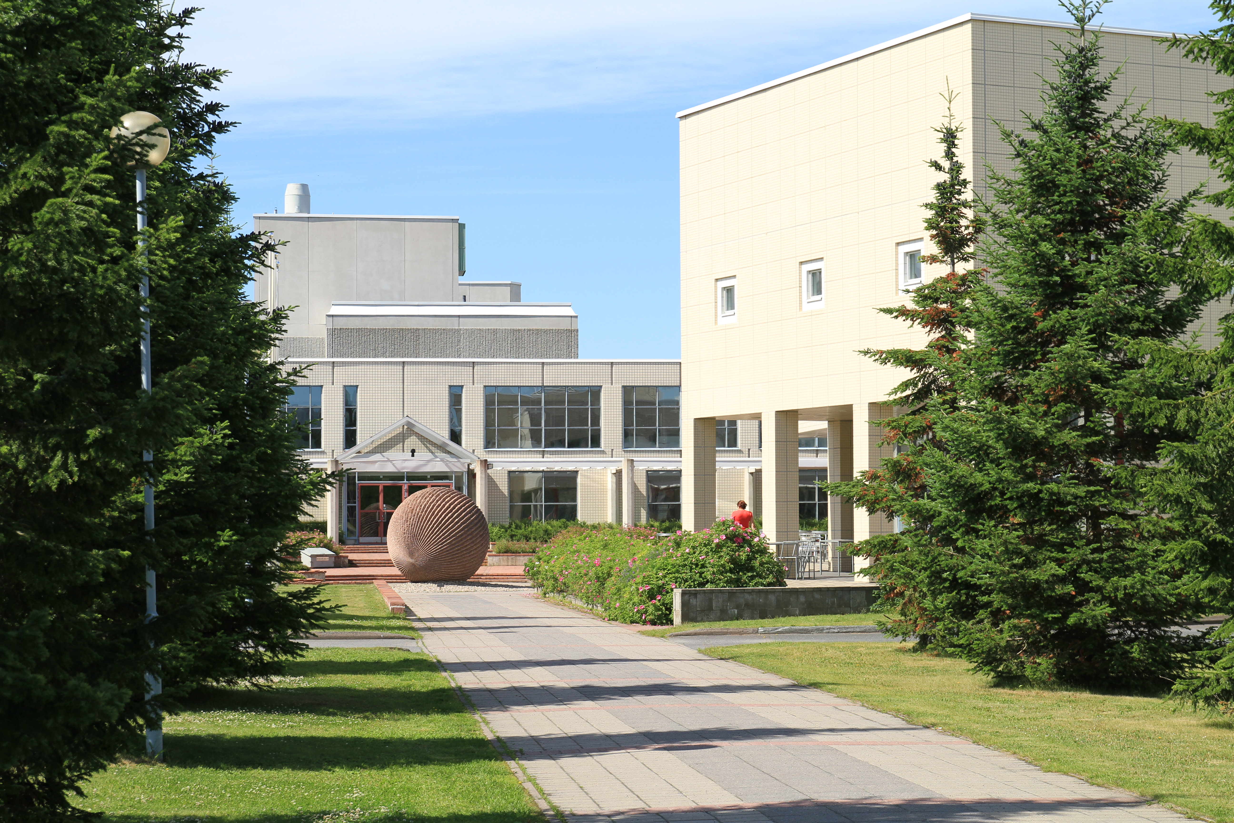 University of Oulu in 2010